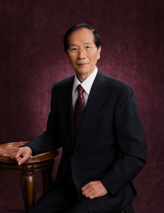 Akira Endō, Director of the Biopharm Research Laboratories, Inc., received the Person of Cultural Merit on November, 2011.